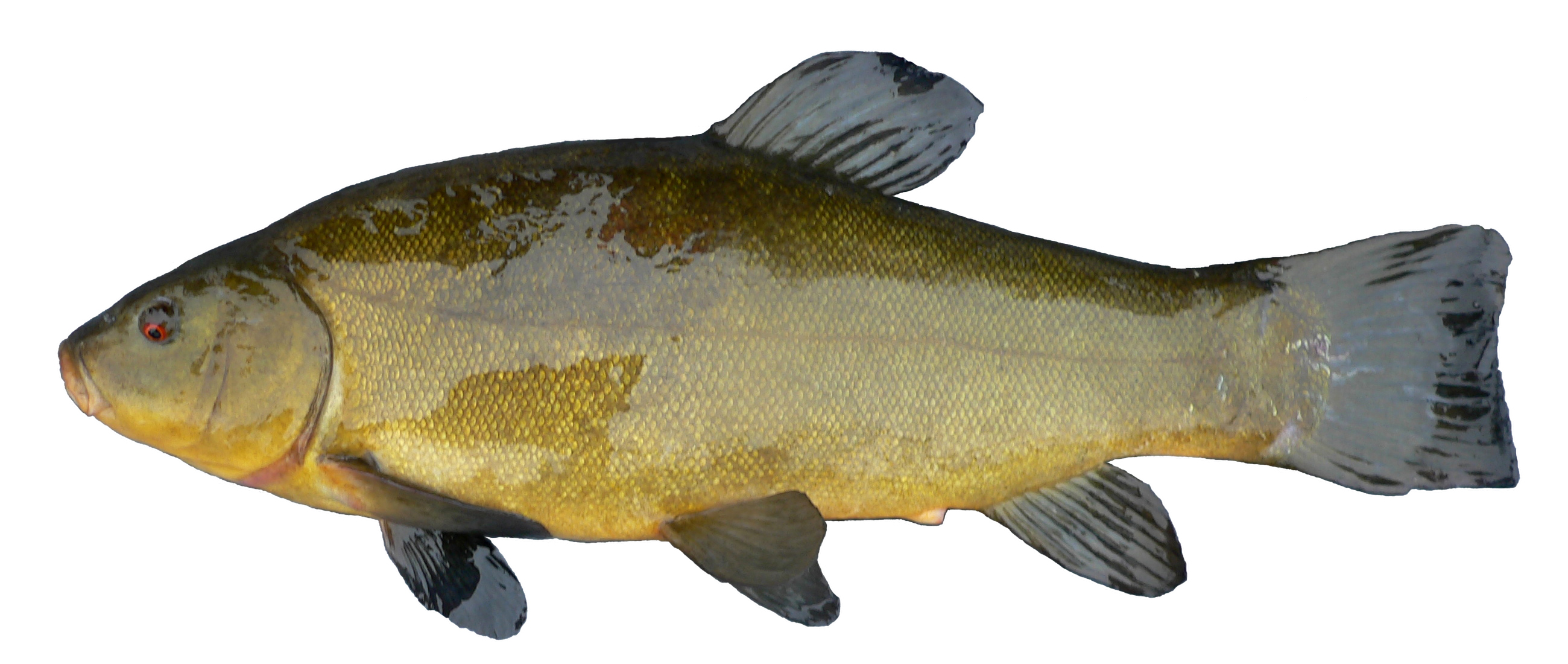 Adult female tench Tinca tinca (58 cm, 2.7 kg) from underwater park Rauwbraken, Berkel Enschot, Noord Brabant, The Netherlands. Sex can be determined by the pelvic fins of the male with a thickened first fin ray and stretching further then the anus.